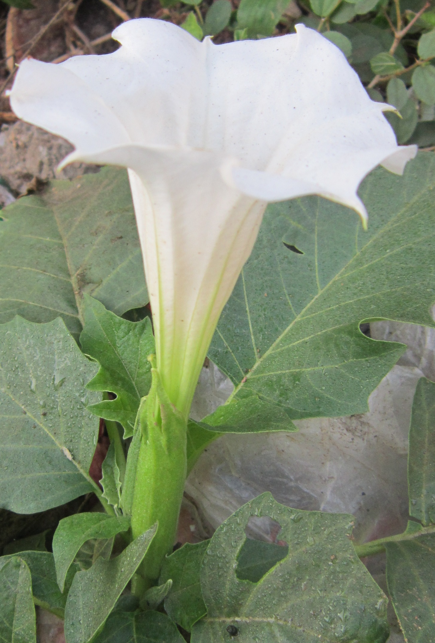 datura plant flower